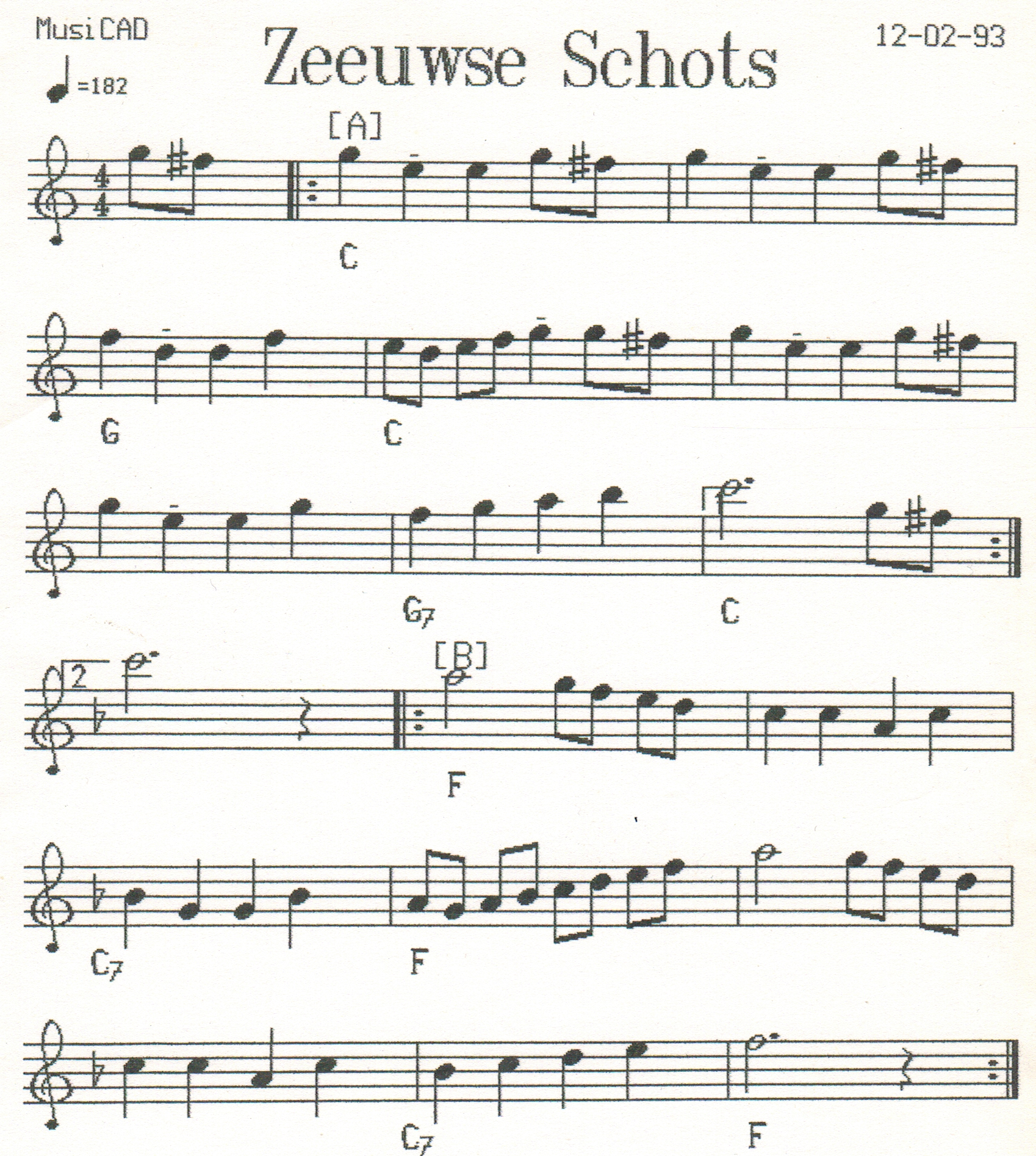 Scan from Old Dutch folk tune 'Zeeuwse Schots' typeset with MusiCAD version 1